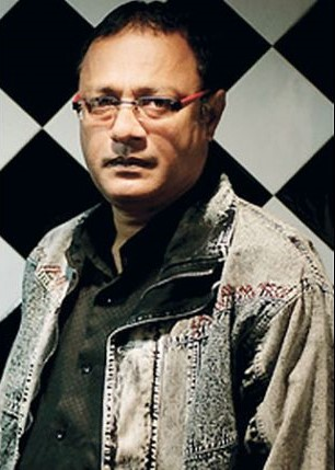 Anjan Das